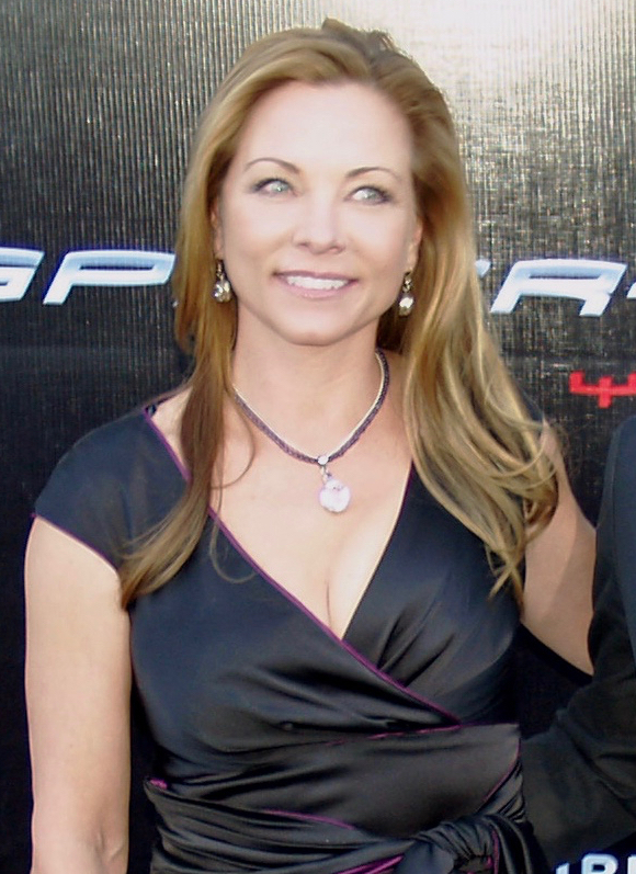 Theresa Russell in 2007, cropped image